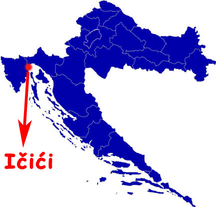 This is a picture that shows where is Icici situated on the map of Croatia